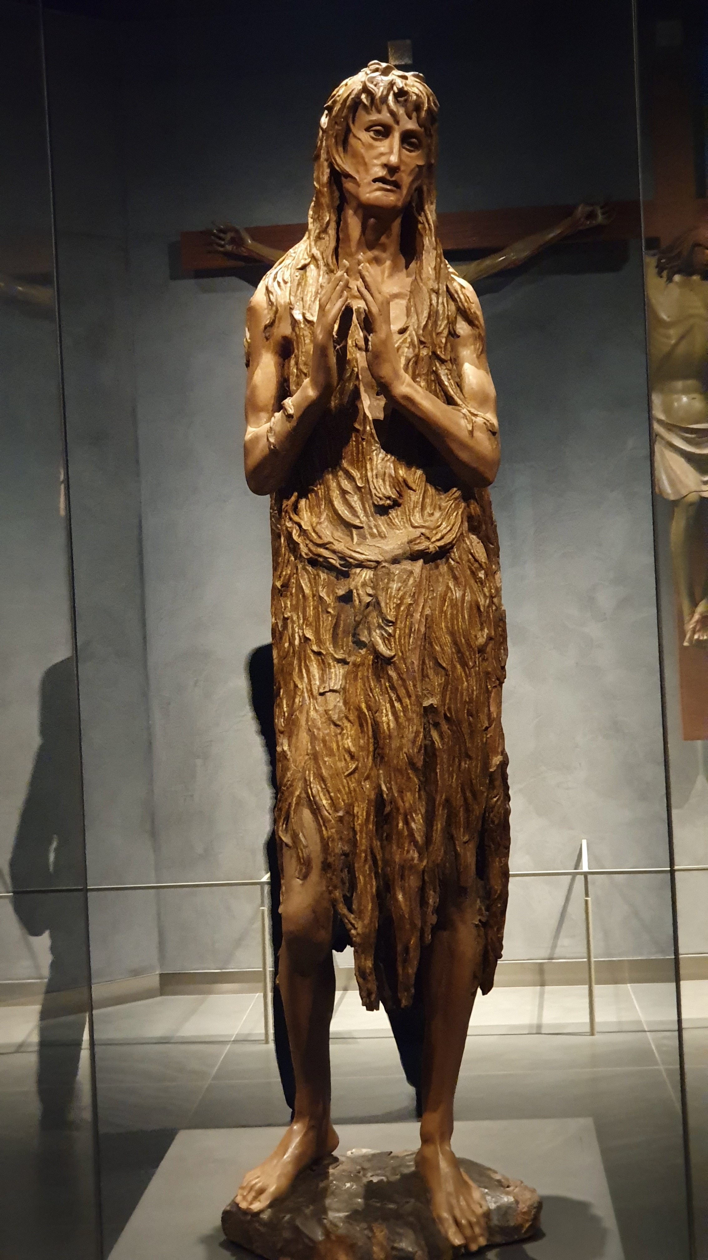 Mary Magdalene by Donatello